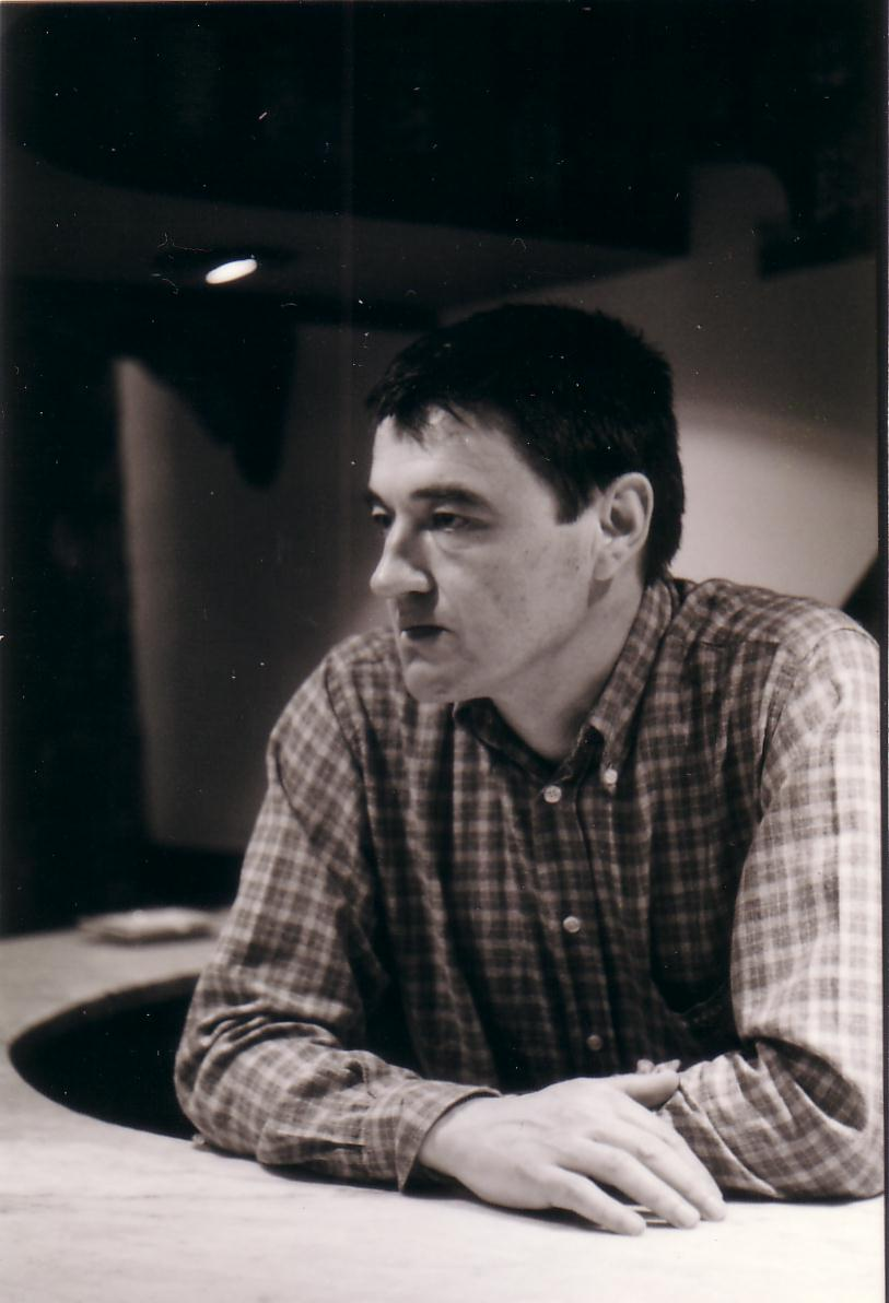 Karmelo C. Iribarren (Donostia, 1959), spanish poet